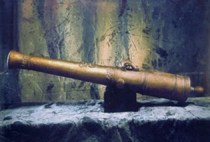 This is a photo of one of the cannons excavated from the wreck of the ship La Belle, lost in Matagorday Bay, Texas in the late 17th century. The cannon is now in the custody of the Texas Historical Commission.